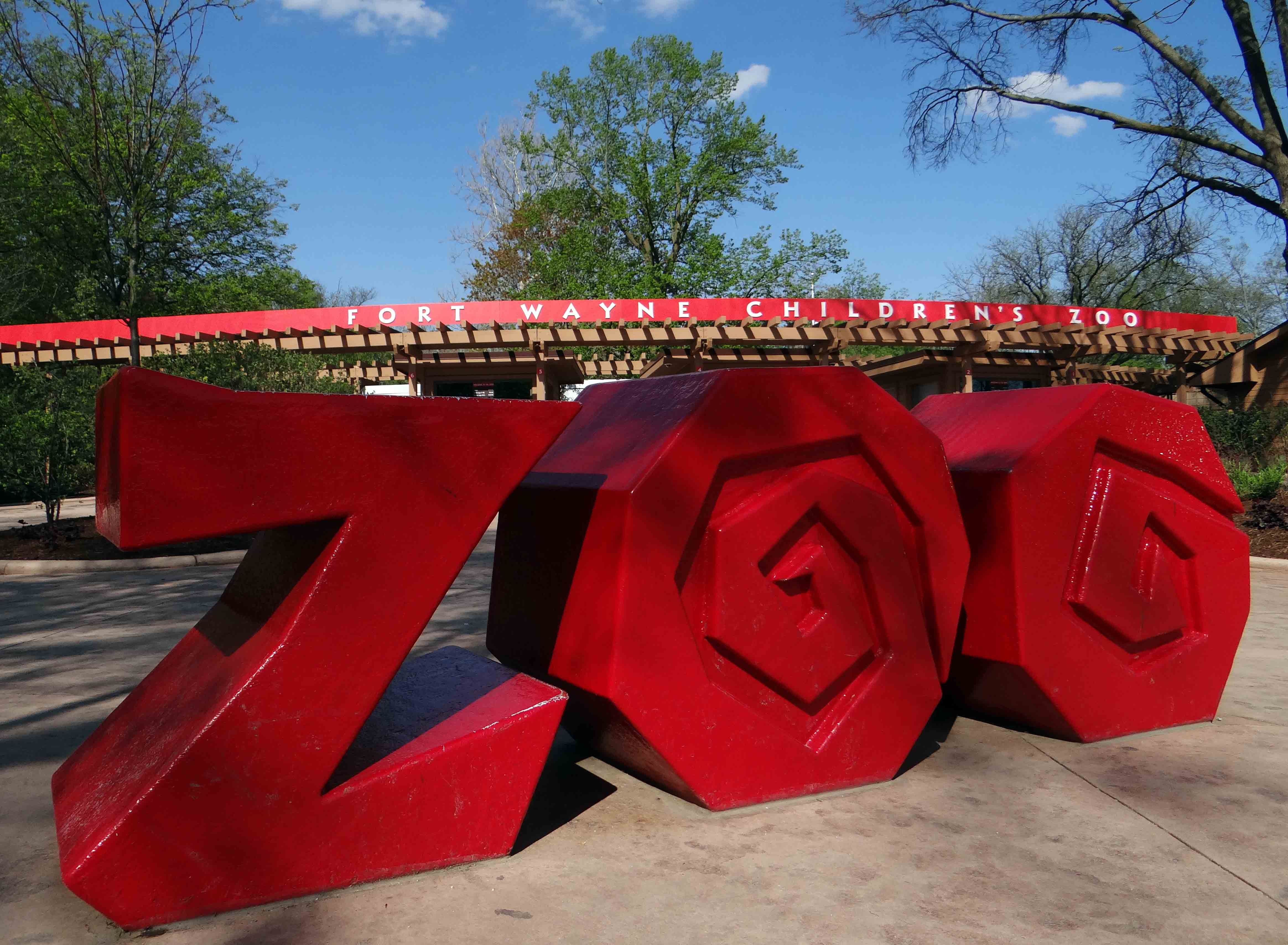 FWCZ entrance plaza, Fort Wayne, Indiana, May 2014.